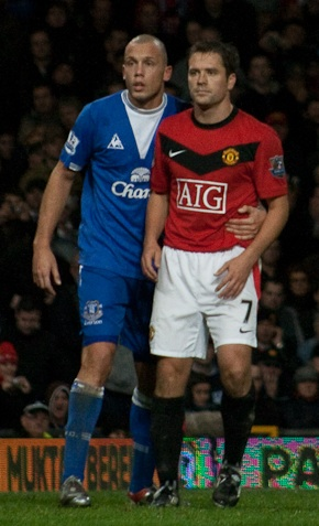 John Heitinga of Everton F.C. defending Michael Owen of Manchester United F.C. in November 2009 This file has been extracted from another file: Michael Owen Johnny Heitinga 2.jpg